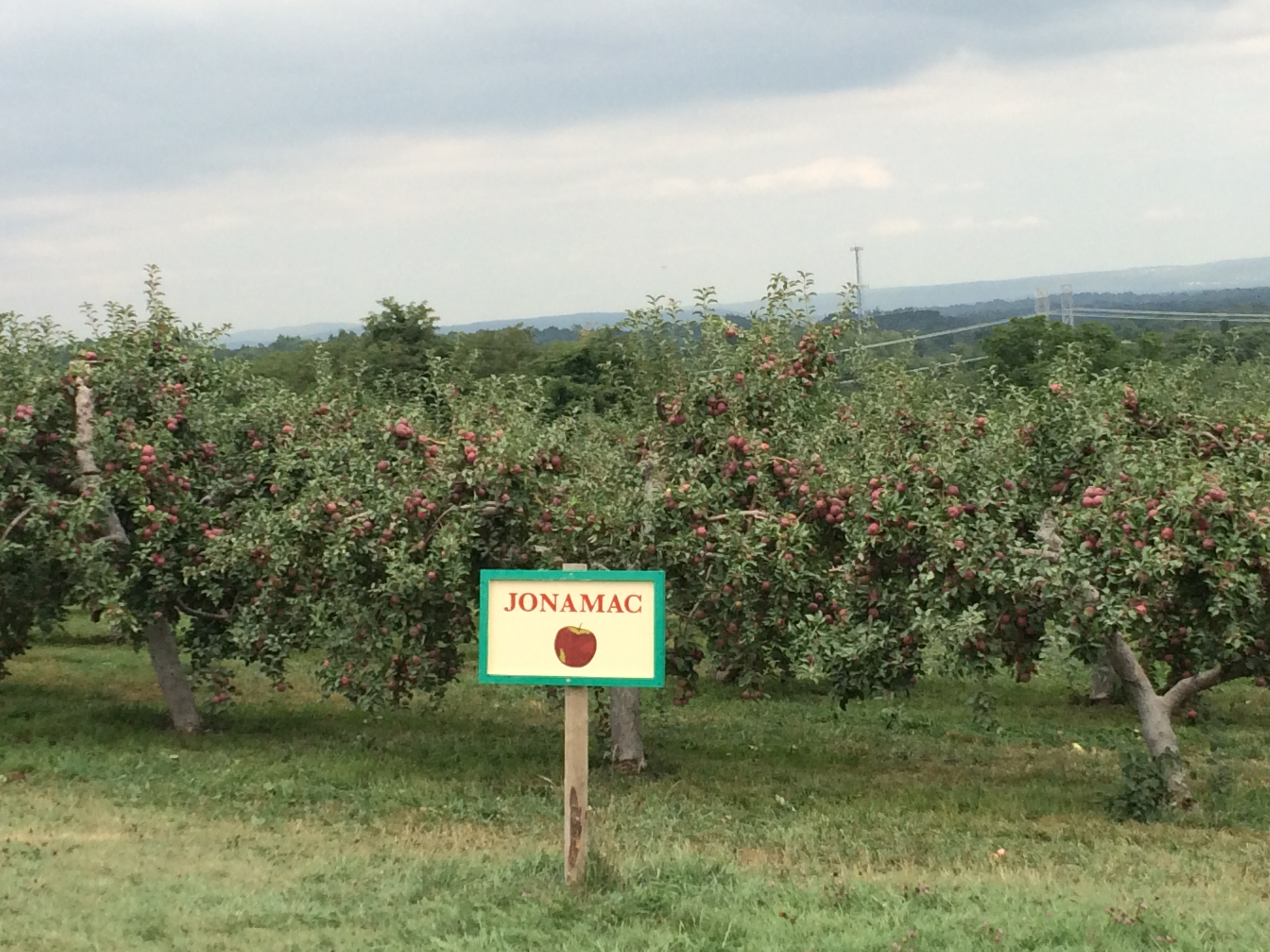 The image is of the apple trees located at Fishkill Farms